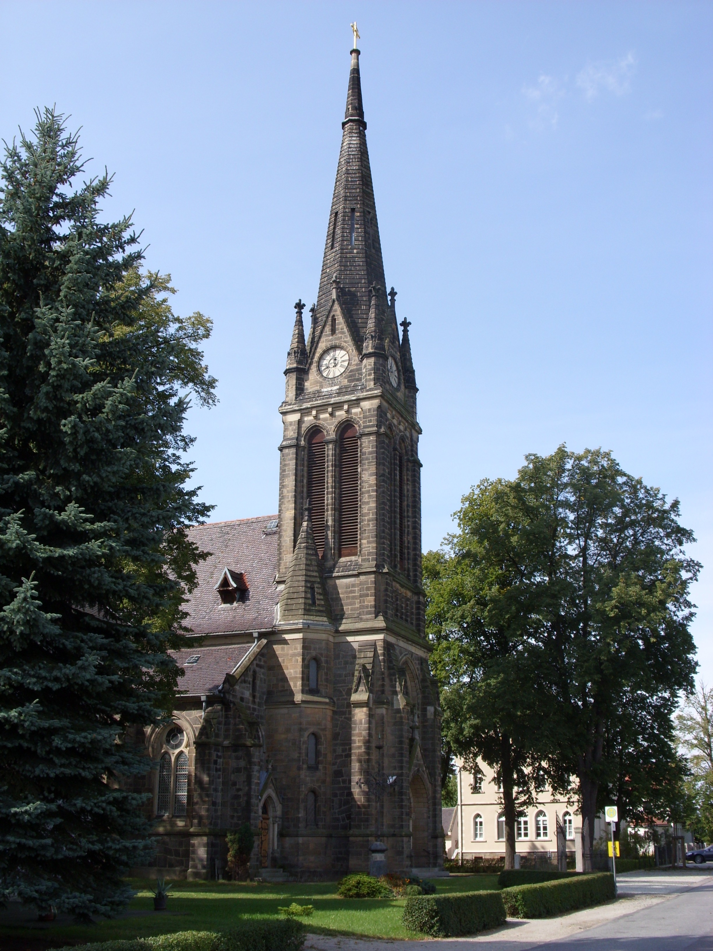 Church of the Sacred Heart in Storcha (Landkreis Bautzen). Hornjoserbsce: Cyrkej Jězusoweje wutroby w Baćonju (Wokrjes Budyšin).